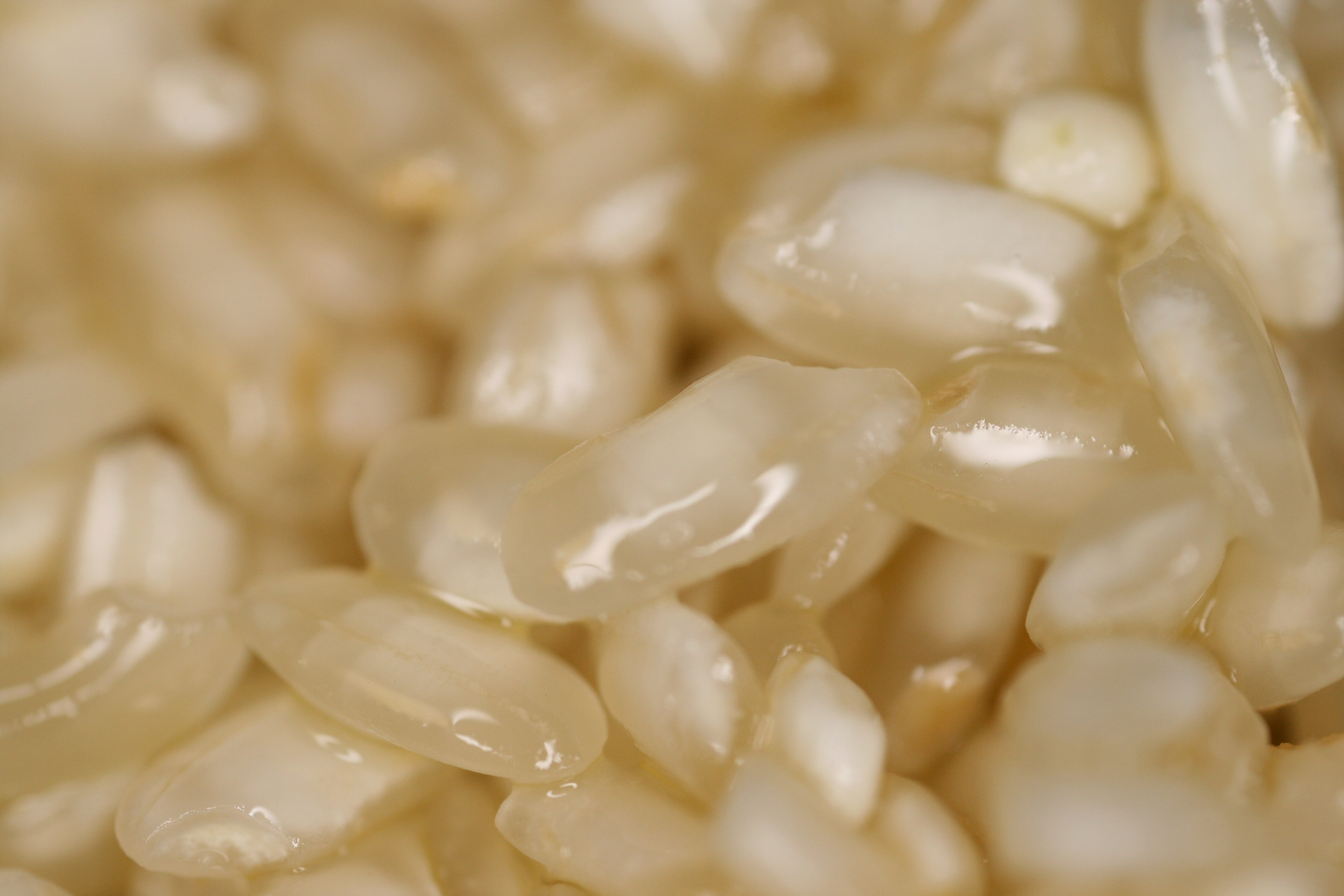 Arborio rice from Italy.